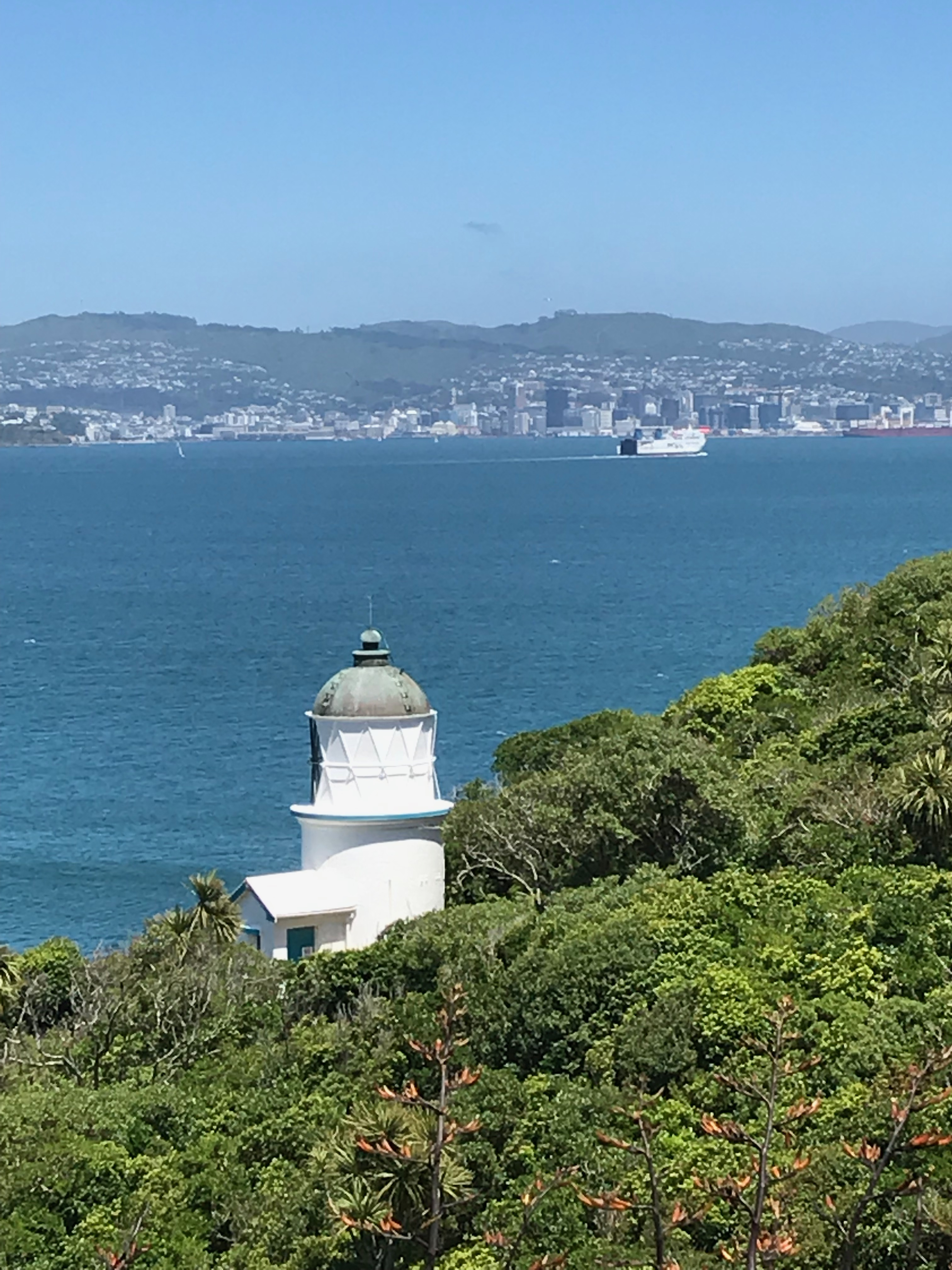 Matiu/Somes Island lighthouse with Wellington City in the background